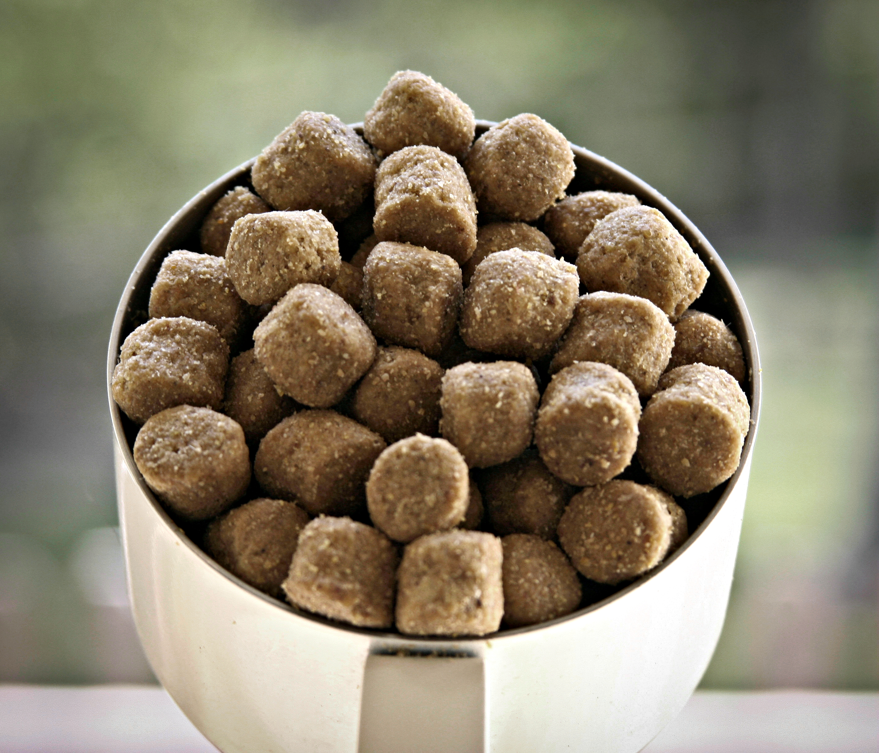 In this case, my dogs see me as a cup of kibbles. One cup, twice a day; 7 a.m. and 5 p.m. Mealtime is the most important time of the day for my dogs and when they see me, they think kibbles. Out of 9 dogs, not one is finicky or particular. Likewise with the 4 cats, but they don't eat cups of kibble. MCP Project 52 How Others See Me 15/52